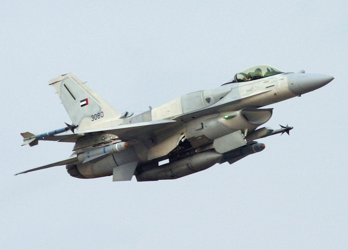 United Arab Emirates F-16 Block 60 taking off from Naval Air Station Joint Reserve Base Fort Worth